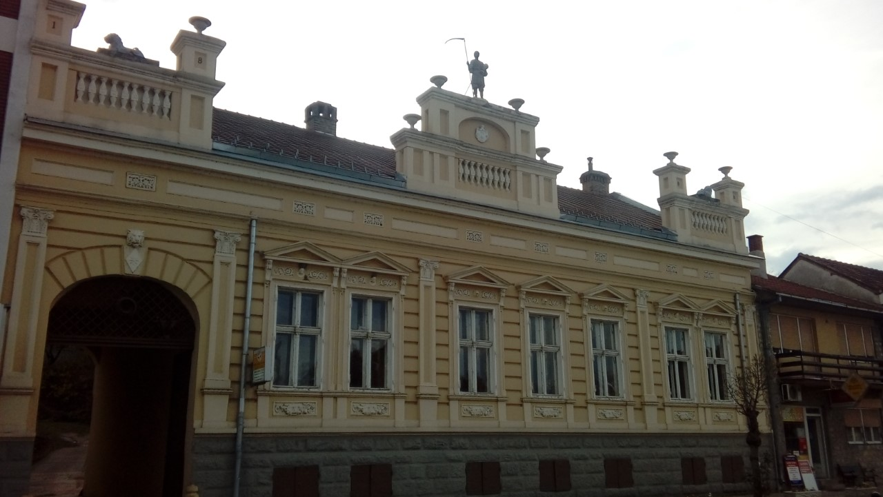 Golubac, Serbia